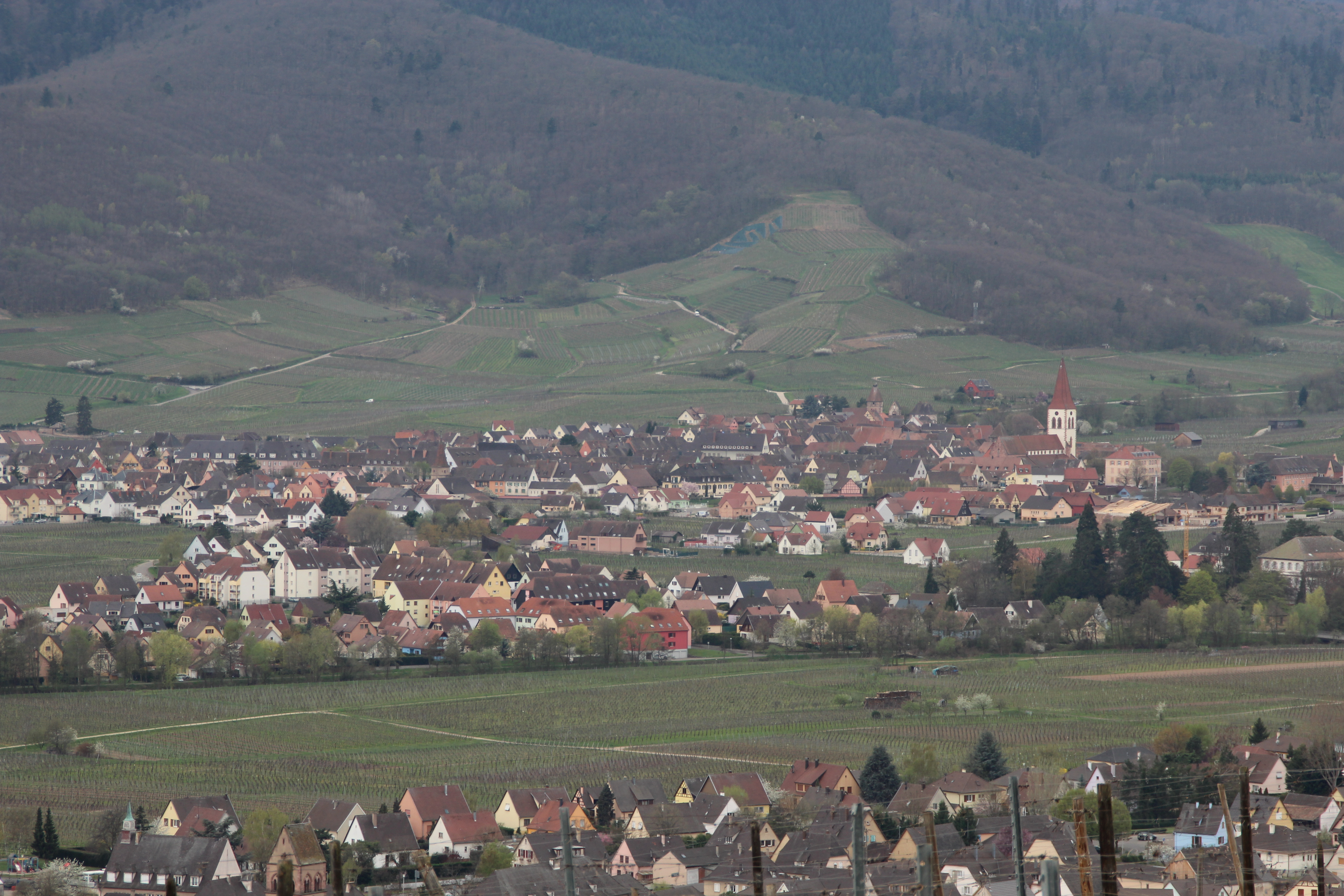 Sigolsheim War Cemetery in April, 18th 2013.